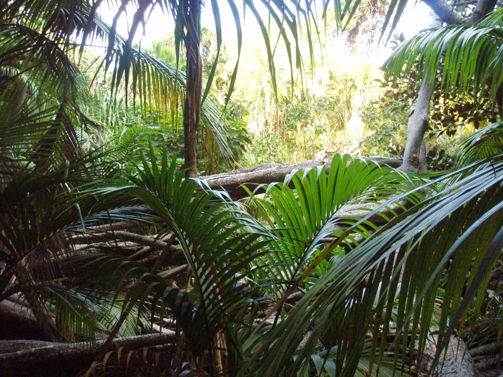 Temperate Rainforest near Old Gultch, Lord Howe Island